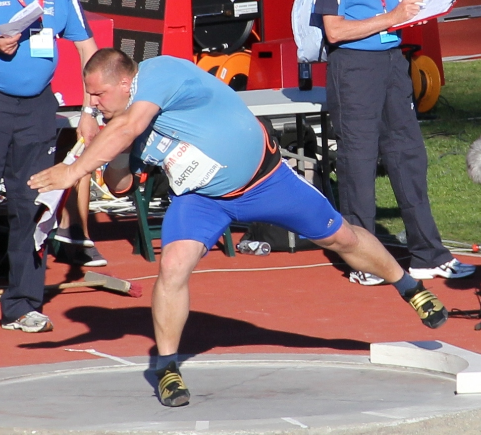 Ralf Bartels in action during Bislett Games 2010